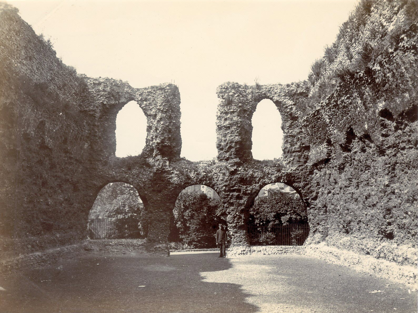 Reading Abbey. Ruins of the Chapter House, looking west towards the cloister, c. 1870. A uniformed man, probably a park-keeper, appears in the central arch. 1870-1879 ; photograph by H. W. Taunt. There is a glass negative, Box 22 No. 1540.